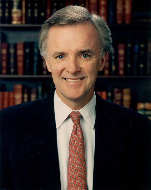 Bob Kerrey, a former Governor and United States Senator from Nebraska and unsuccessful 1992 candidate for the Democratic presidential nomination.